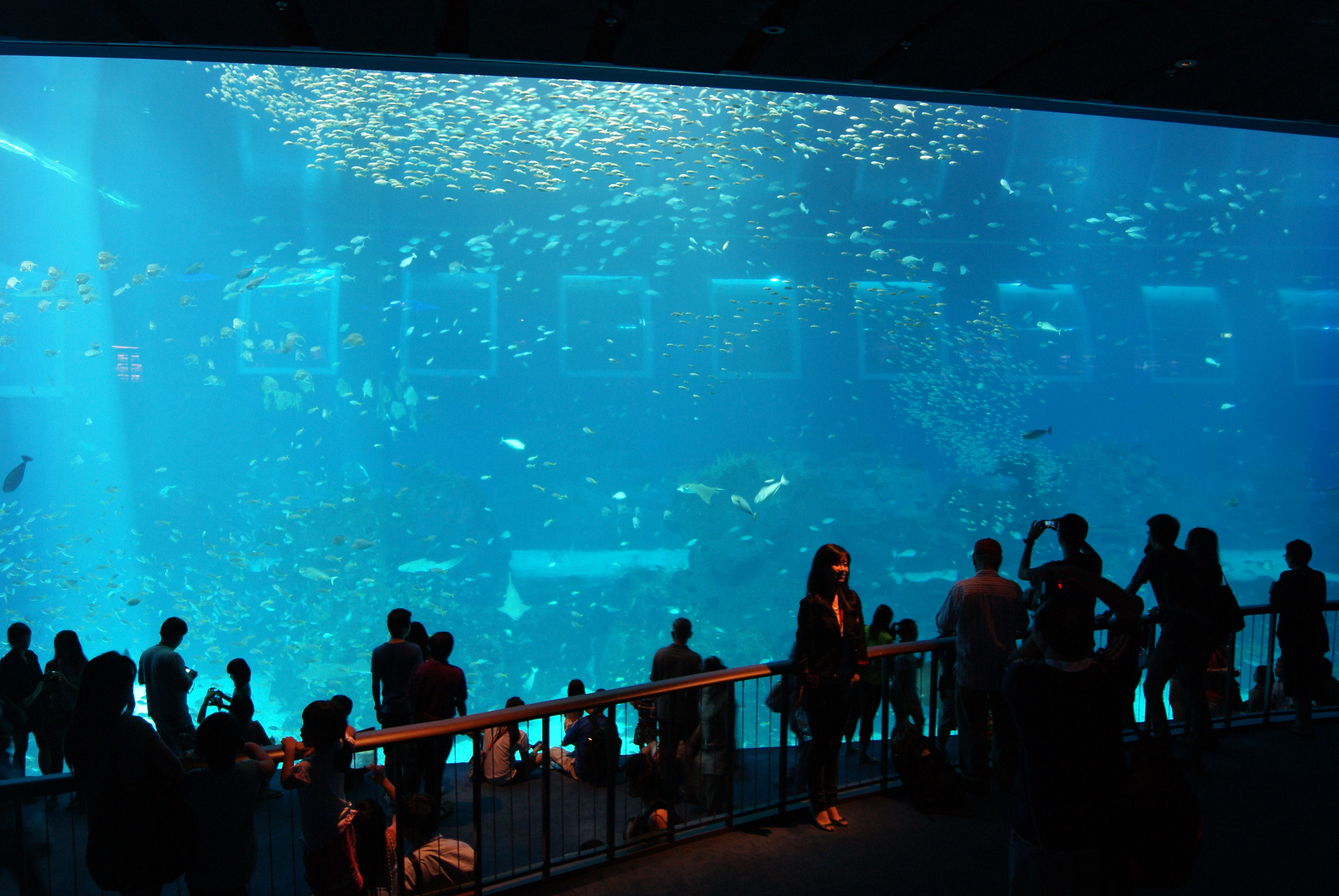 The Open Ocean section of the S.E.A. Aquarium in the Marine Life Park at Resorts World Sentosa, Singapore.